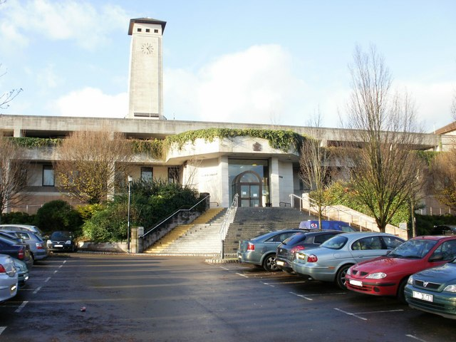 Newport Crown Court. Adjacent to the Magistrates Court 1613997 is Newport Crown Court, on the southeastern side of the Civic Centre. The entrance to the court shown here is up a flight of about two dozen steps. Reassuringly, the time shown on the Civic Centre clock tower was accurate.